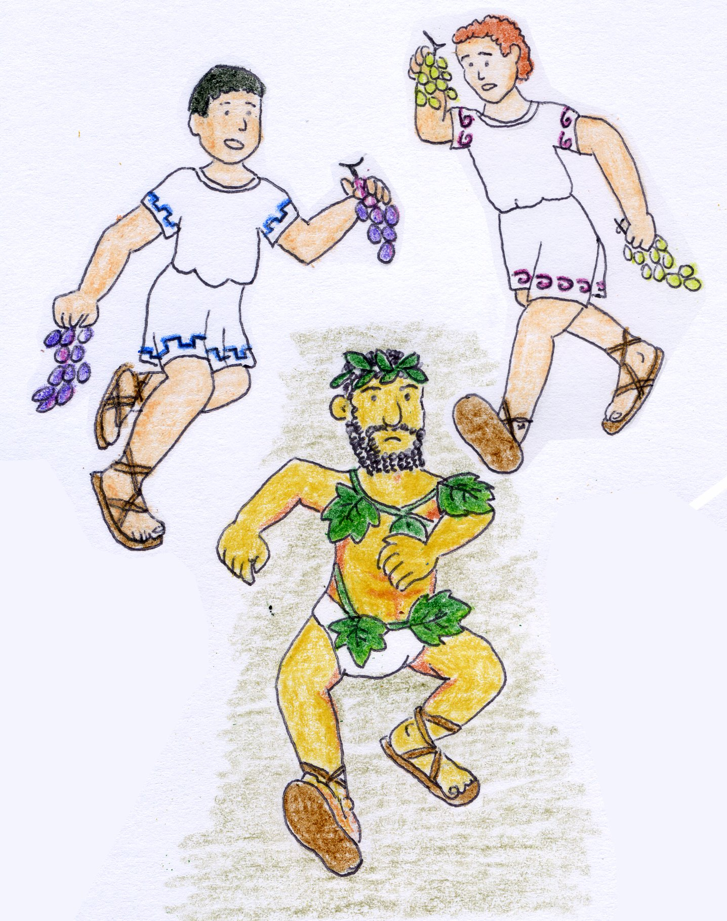 Carneia took place every year from the 7th to the 15th of the month Carneus. This is the run made in that Spartan festival. A man decked with garlands (possibly the priest himself) started running, pursued by a band of young men called σταφυλοδρόμοι ("running with bunches of grapes in their hands"); if he was caught, it was a guarantee of good fortune to the city; if not, the reverse.